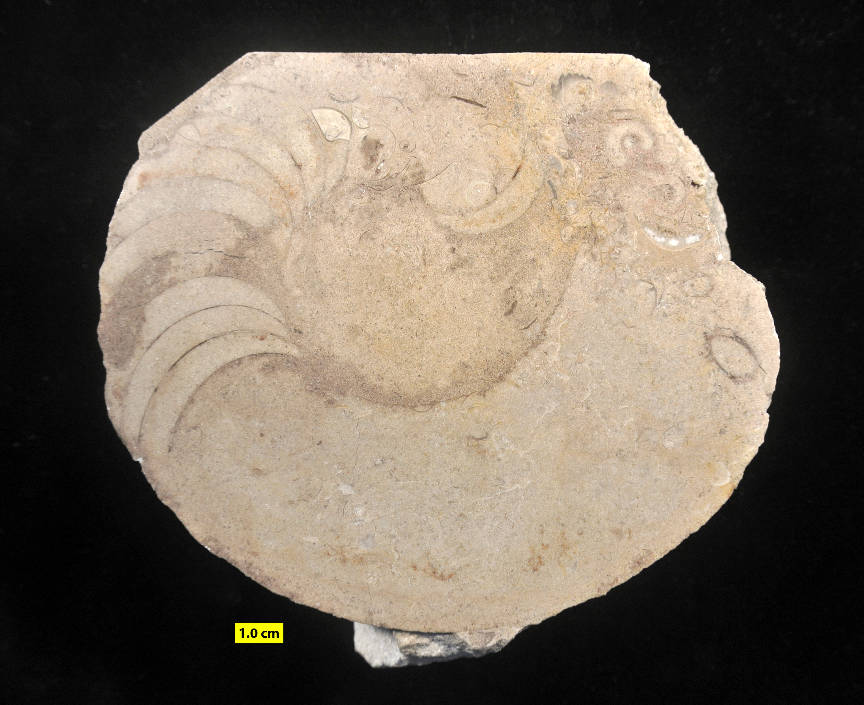 Goldringia cyclops (formerly Gyroceras cyclops), a nautiloid from the Columbus Limestone (Middle Devonian, Eifelian) near Delaware, Ohio.